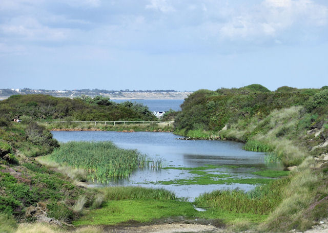 Old Ironstone Quarry, Hengistbury Head Quarried for siderite nodules in Victorian times